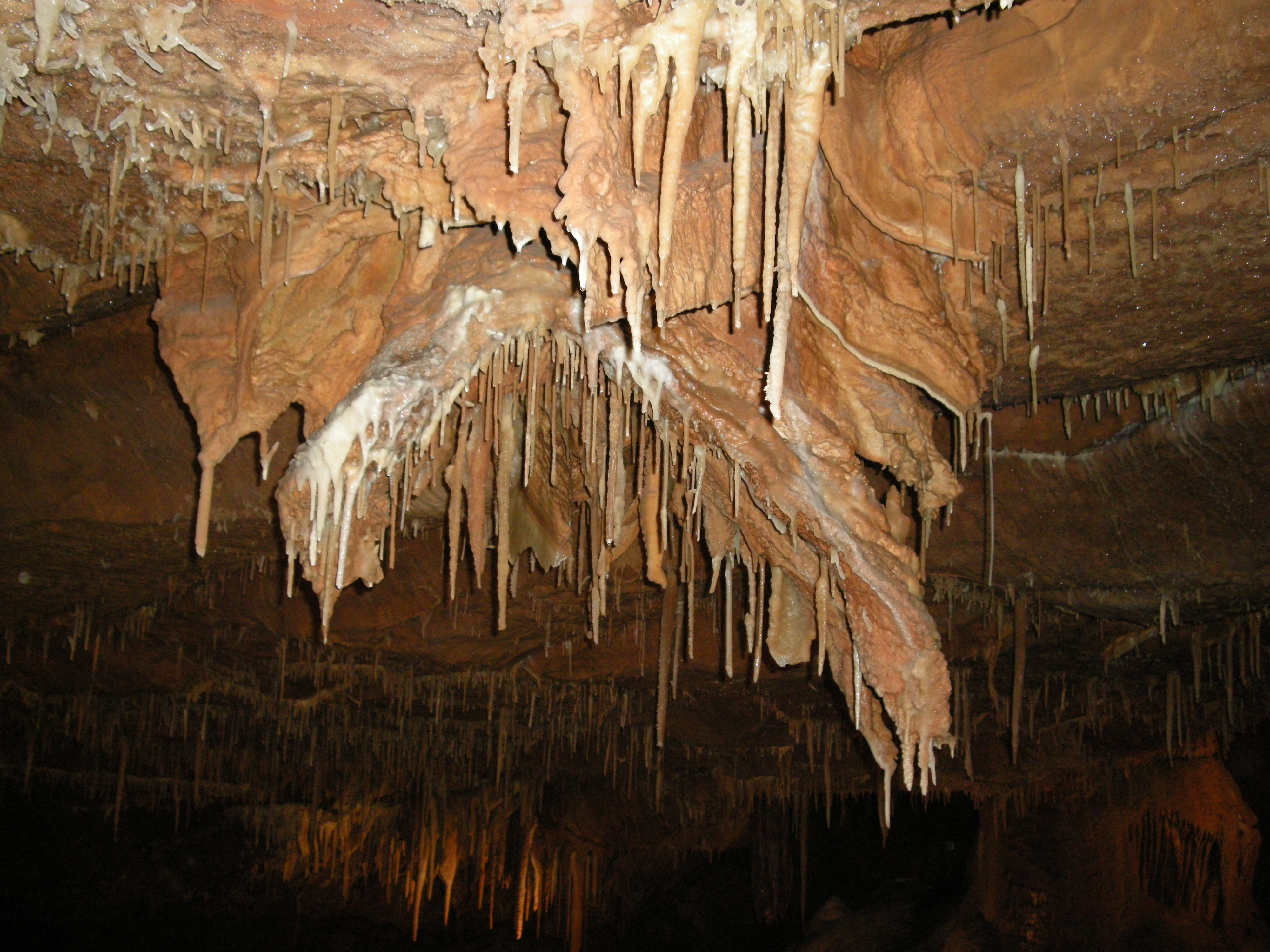 Stalactites - Caves of Lacave, Lot (France).